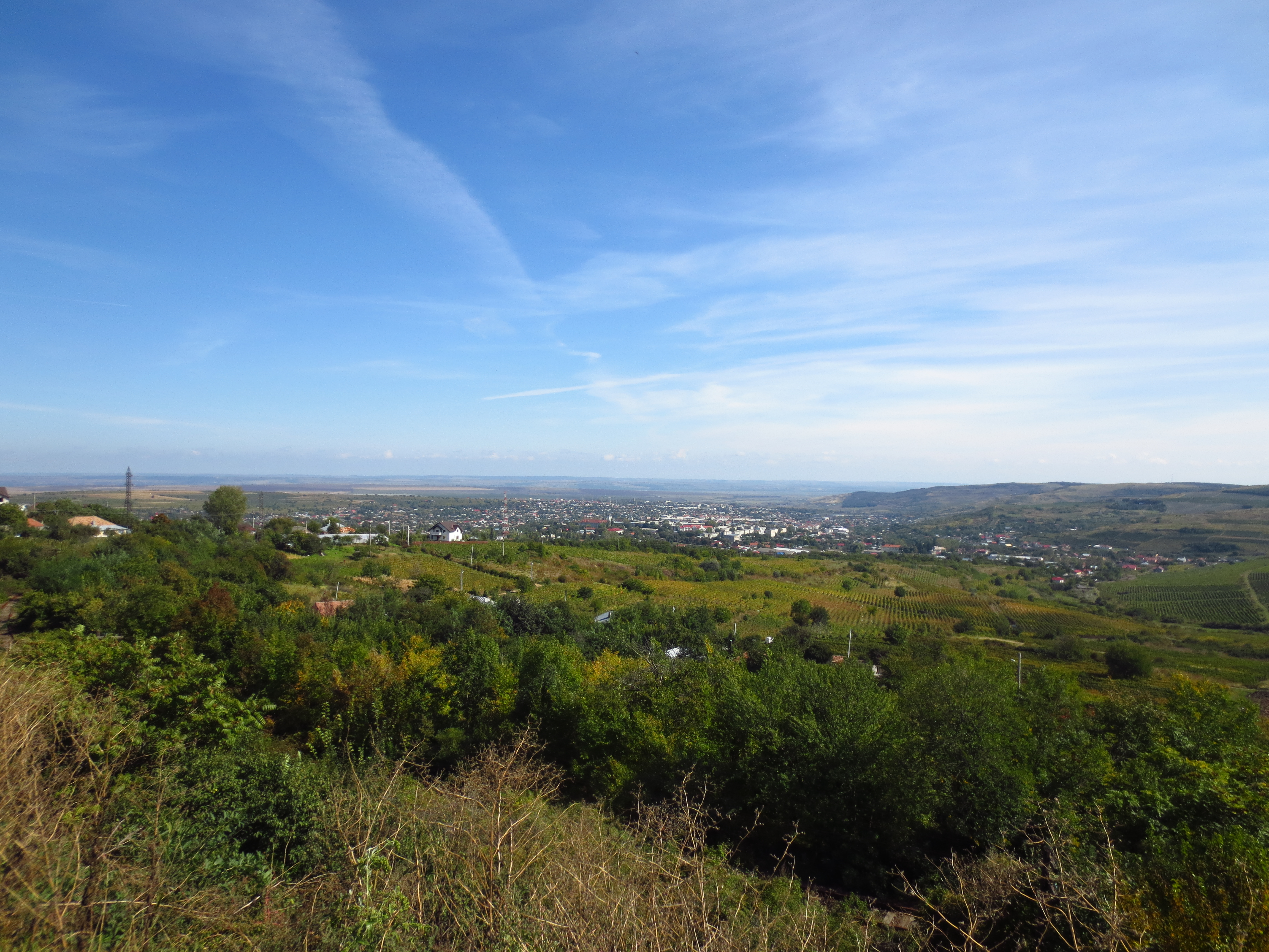 Huși, Vaslui county, Romania seen from Dobrina hill. (Hungarian: Huszváros